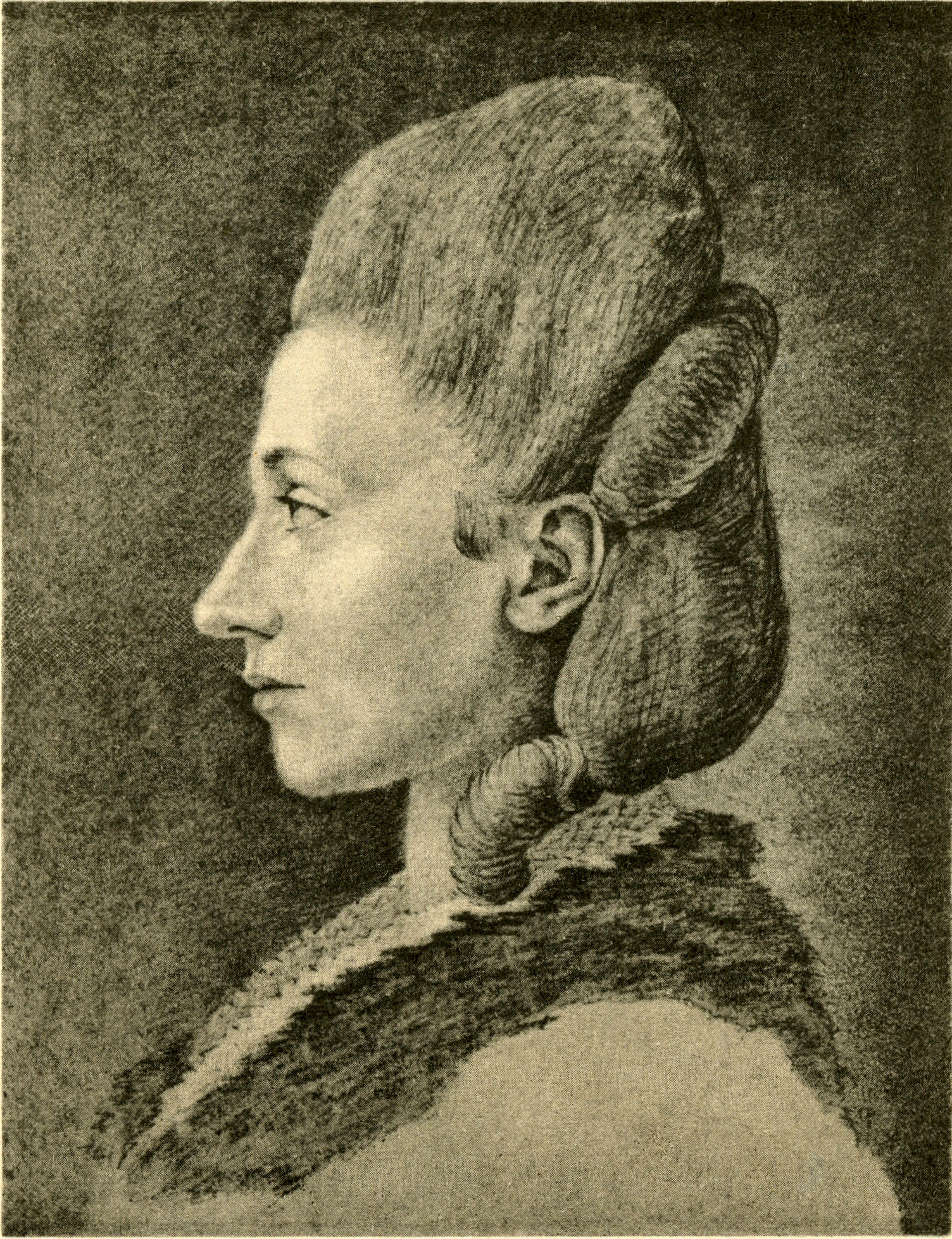 Portrait of a woman, probably Charlotte von Stein. First thought to show the Herzogin Luise, it is since 1940 regarded to be a portrait of Charlotte von Stein